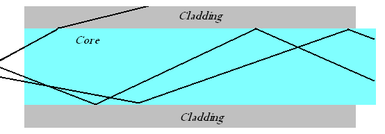 Waveguide in an optical fiber